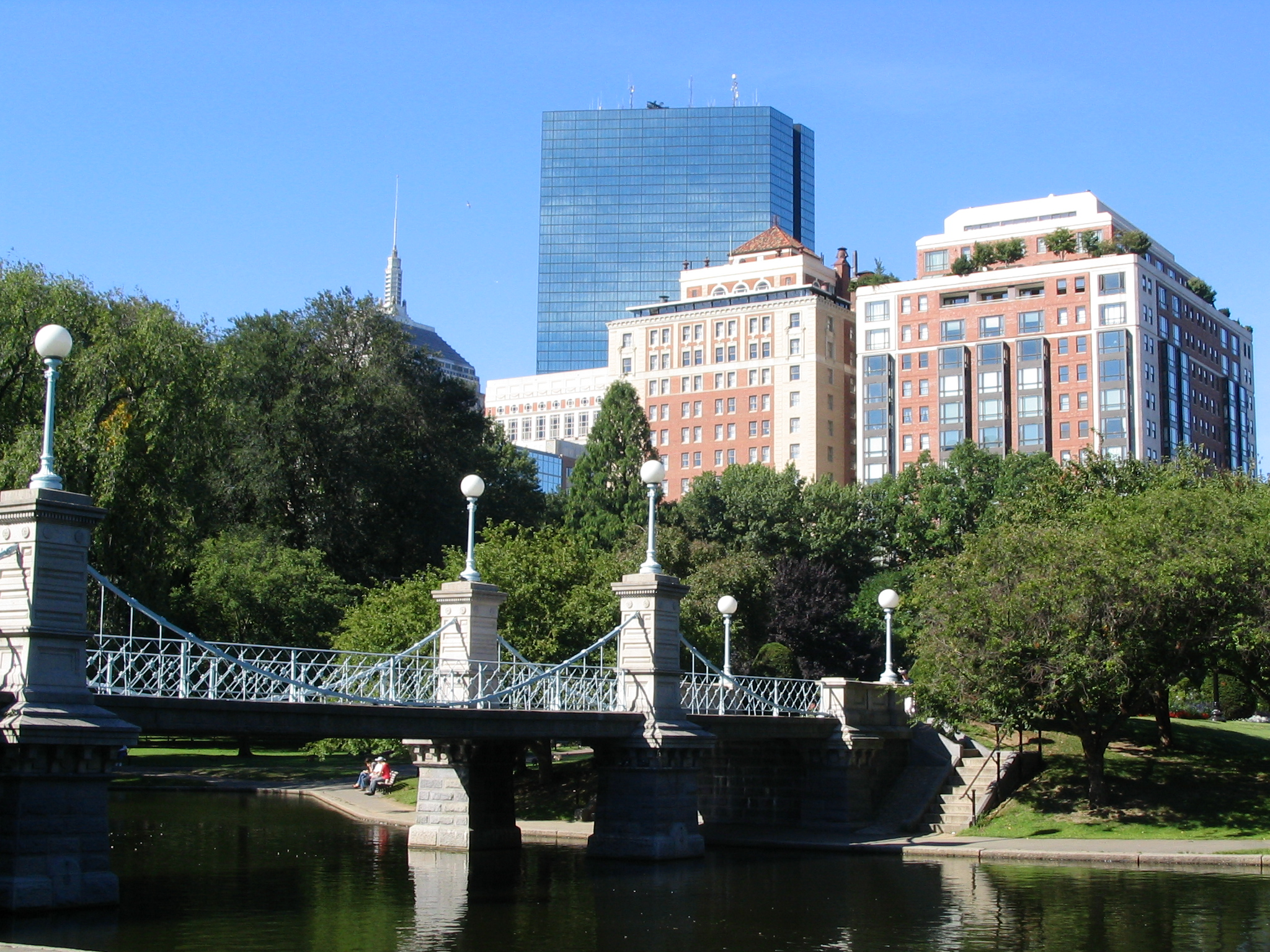 The Public Garden, also known as Boston Public Garden, is a large park located in the heart of Boston, Massachusetts, adjacent to Boston Common. The Public Garden was established in 1837 when philanthropist Horace Gray petitioned for the use of land as the first public botanical garden in the United States. Grey helped marshal political resistance to a number of Boston City Council attempts to sell the land in question, finally settling the issue of devoting it to the Public Garden in 1856. The Act establishing use of the land was submitted to the voters on 26 April 1856 where it passed with only 99 dissents. Together with the Boston Common, these two parks form the northern terminus of the Emerald Necklace, a long string of parks designed by Frederick Law Olmsted. While the Common is primarily unstructured open space, the Public Garden contains a lake and a large series of formal plantings that are maintained by the city and others and vary from season to season. During the warmer seasons, the 4 acres (16,000 m2) pond is usually the home of one or more swans and is always the site of the Swan Boats, a famous Boston tourist attraction, which began operating in 1877.[8] For a small fee, tourists can sit on a boat ornamented with a white swan at the rear. The boat is then pedaled around the lake by a tour guide sitting within the swan. (Boston)